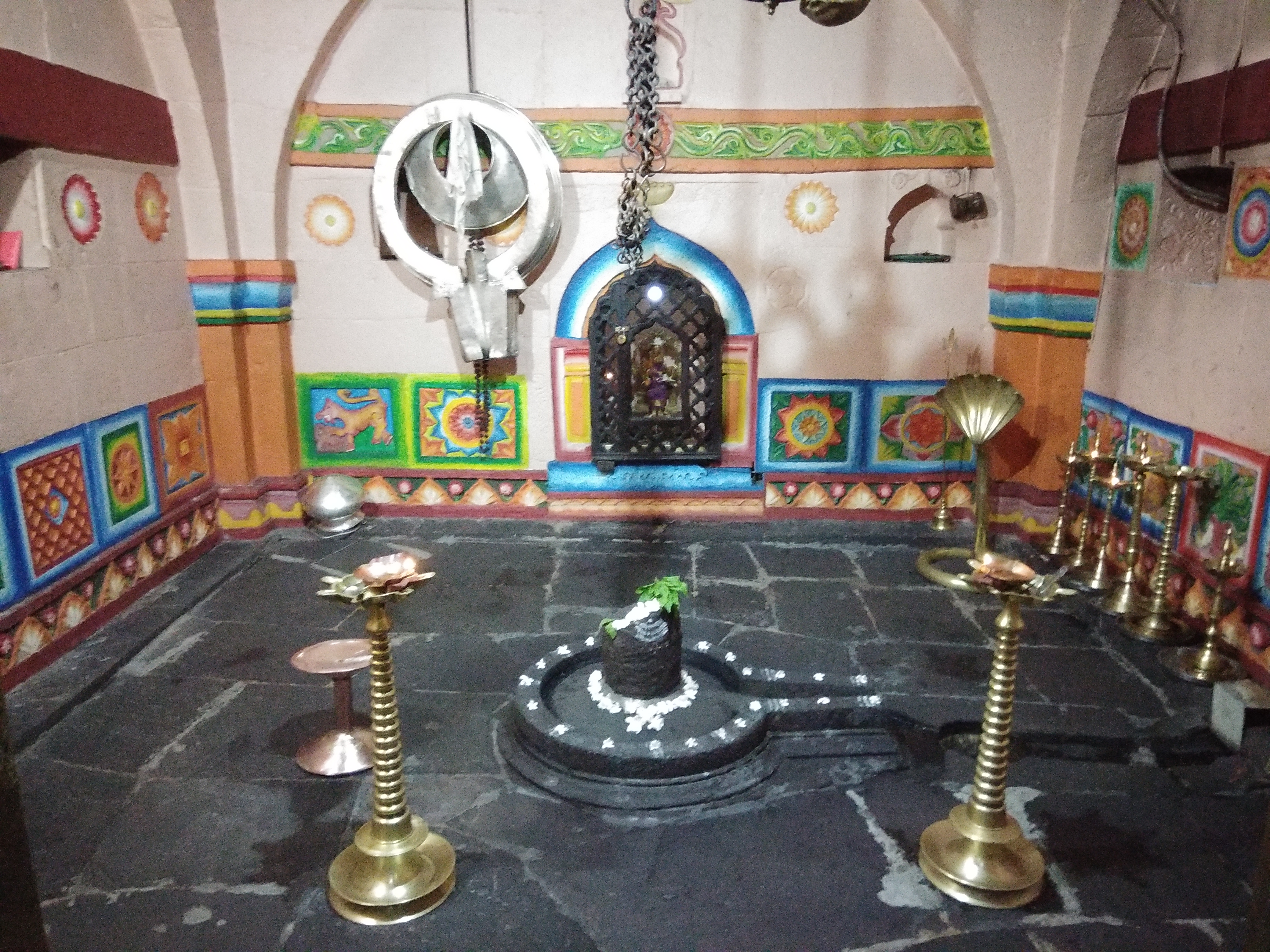 Dhootpapeshwar temple Rajapur